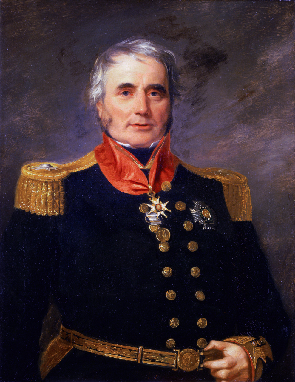 Portrait of Rear-Admiral Sir James Alexander Gordon, (1782-1869) painted by Andrew Morton in 1839